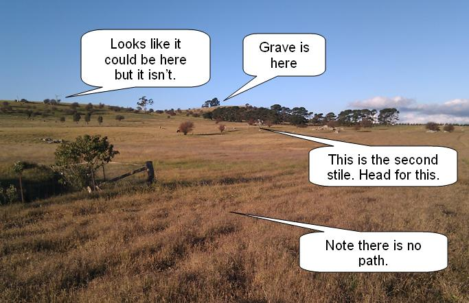 The location of Braidwood Wilson's grave viewed from 80 metres past the first stile. There is no path and barbed wire fences block the way so you must proceed from stile to stile to get there.